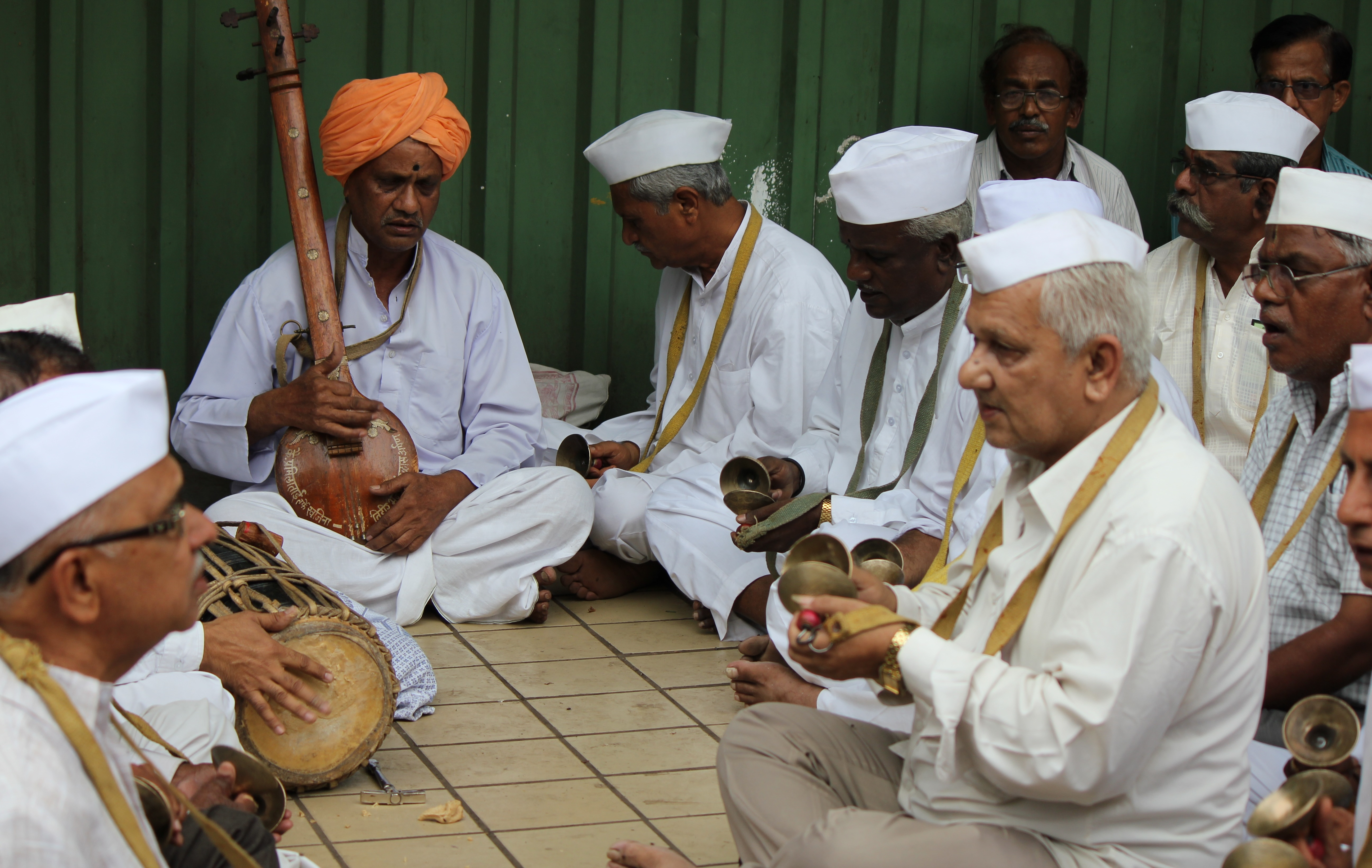 Vaarkaris Singing Bhajanas